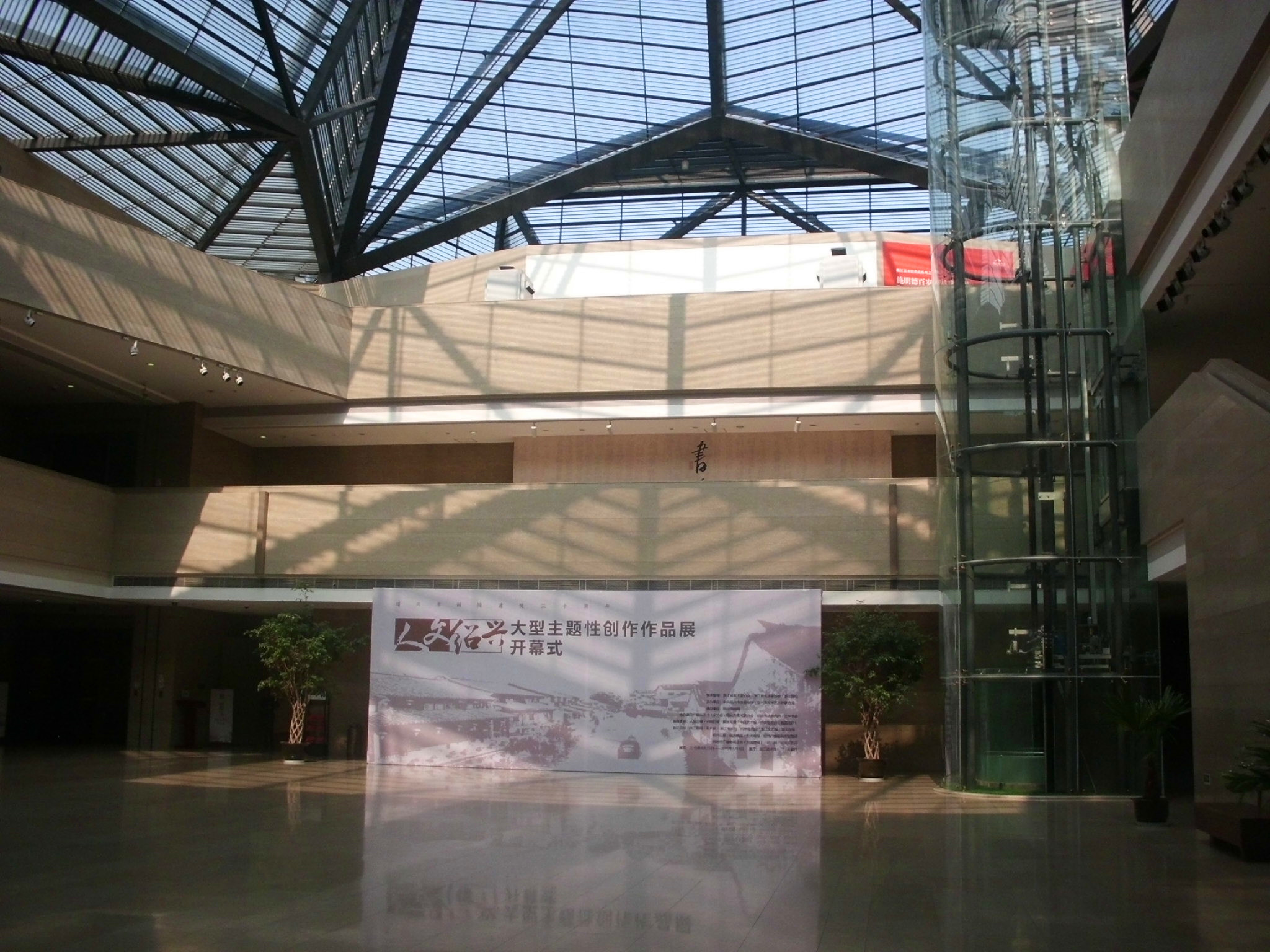 Zhejiang Art Museum